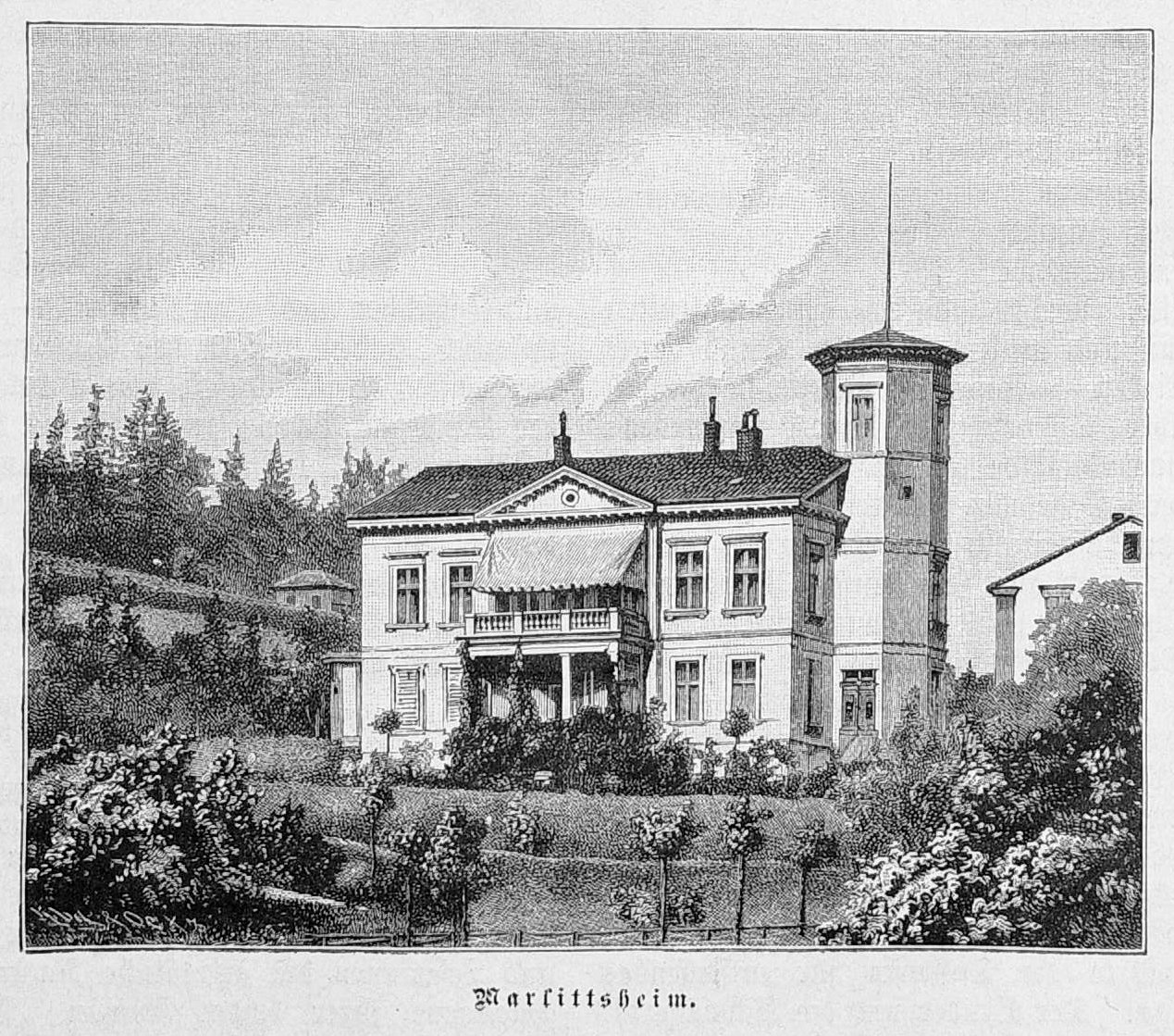 caption: "Marlittsheim."